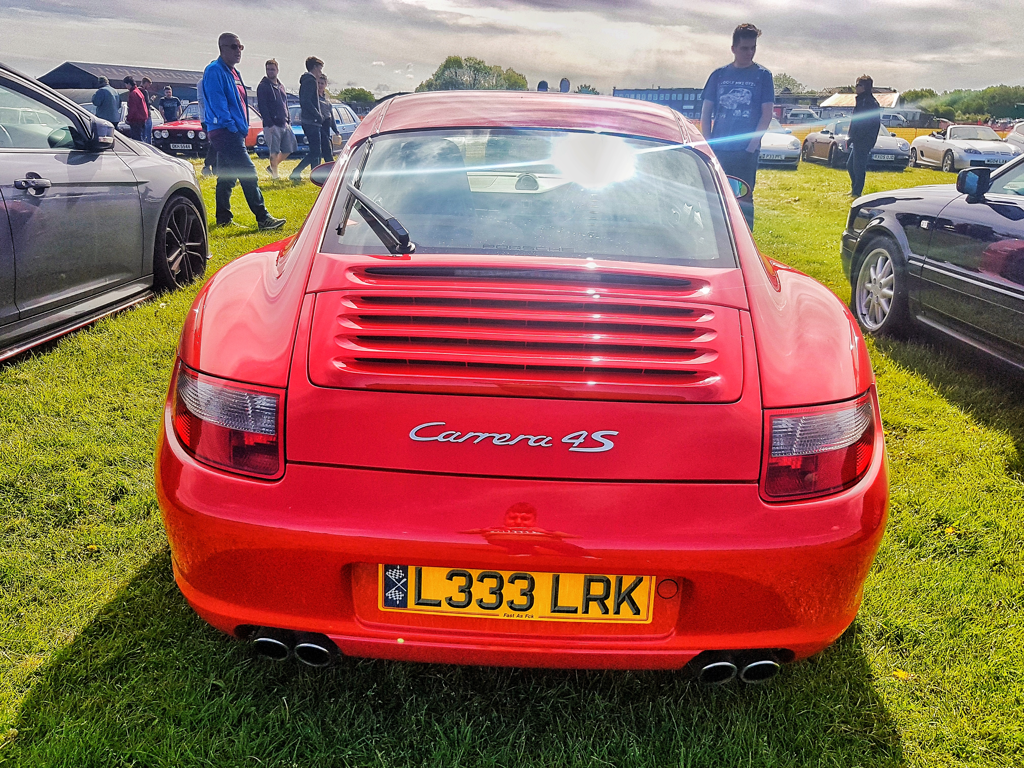 Photo taken at Manchester cars and coffee event at city airportmanchester